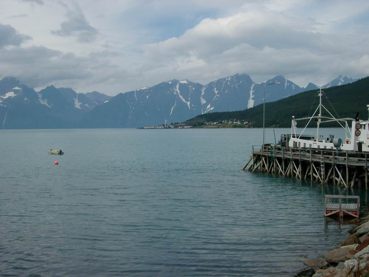 Nordreisa municipality in Troms county, Norway: From Rotsund on the mainland towards Havnnes on Uløya island. The mountains in the background are in Lyngen municipality, on the mainland on the west side of the Lyngen fjord.